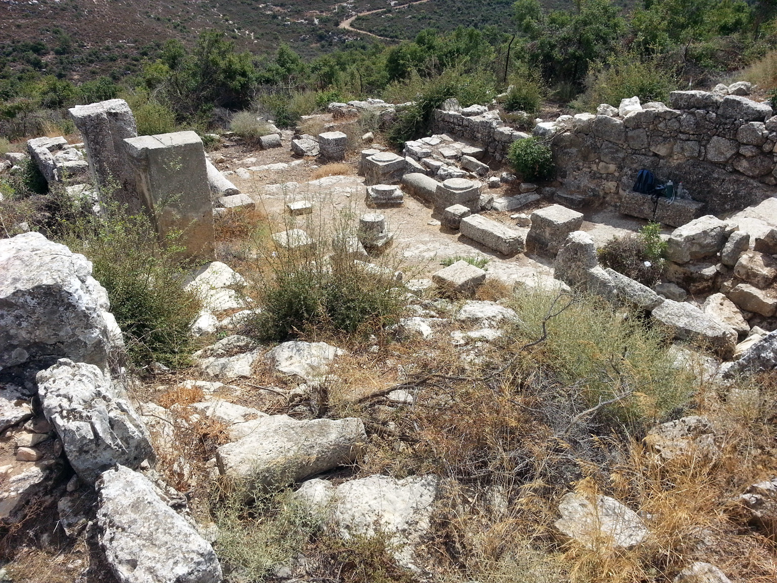 Picture of an Archaeological site שמע